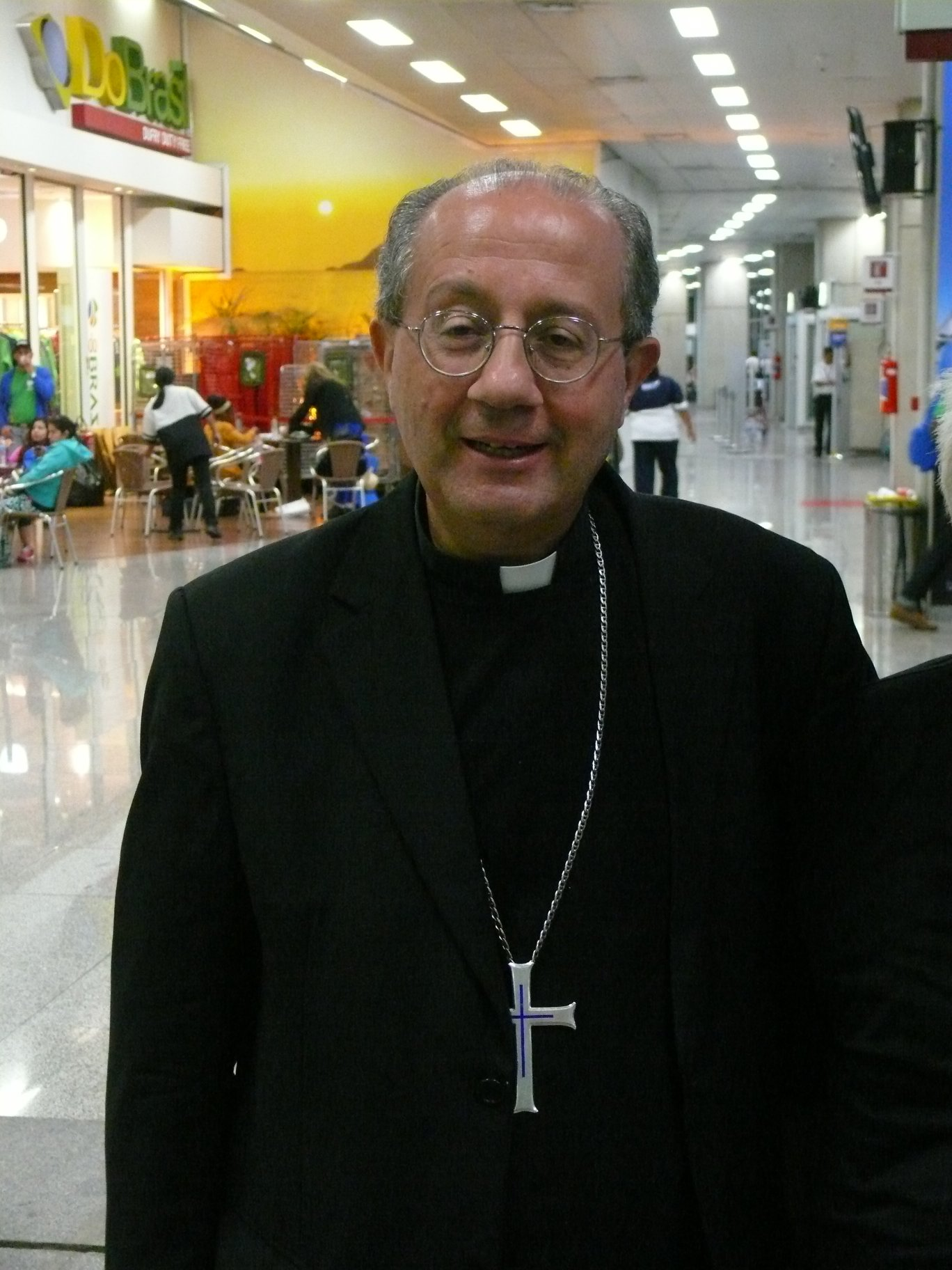 Archbishop Bruno Forte of Chieti-Vasto (Italy) during World Youth Day 2013 in Rio de Janeiro (Brazil).